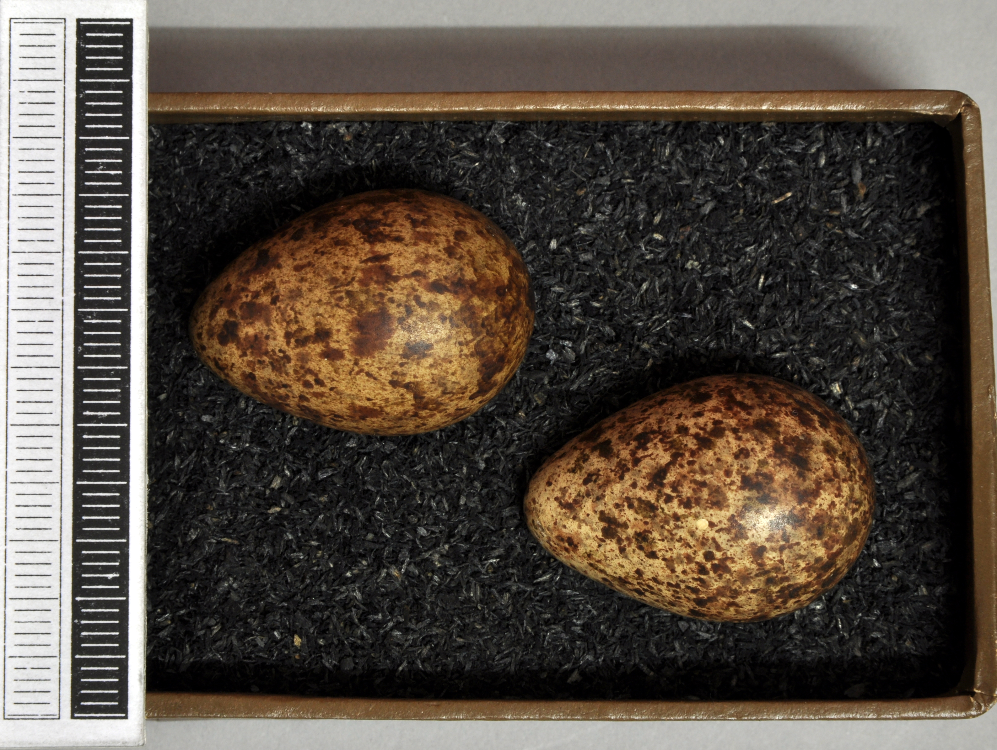 Broad-billed sandpiper Limicola falcinellus , egg, Coll. Museum Wiesbaden